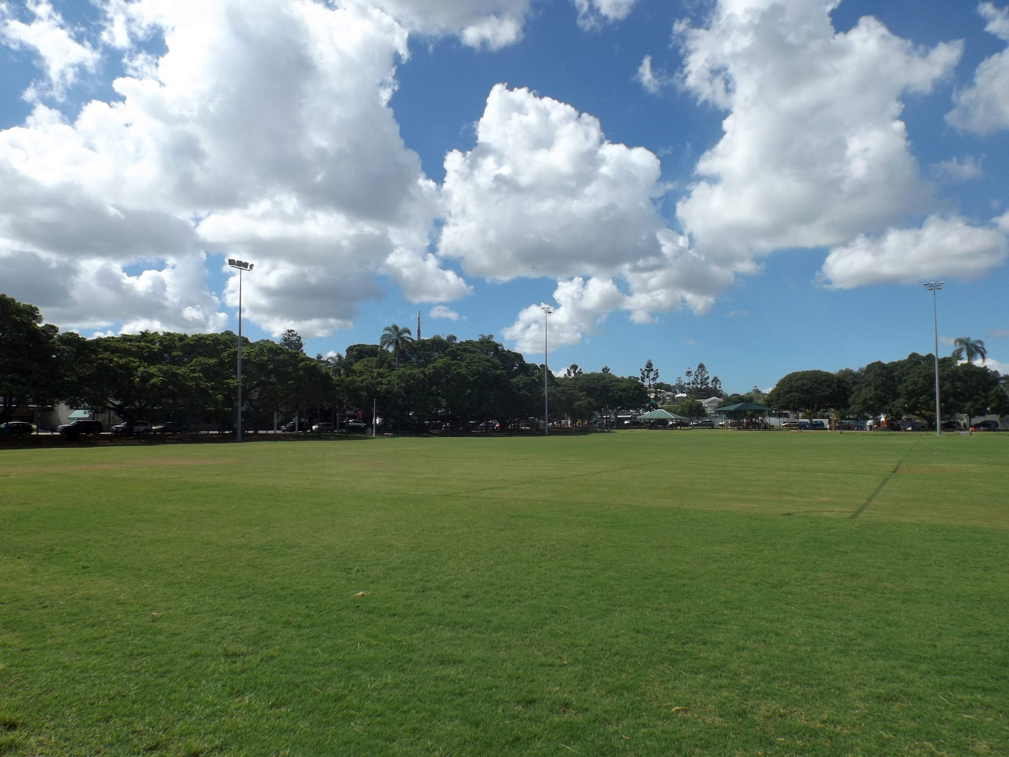 Photo of Bulimba Memorial Park field at Bulimba, Brisbane, Queensland, Australia.